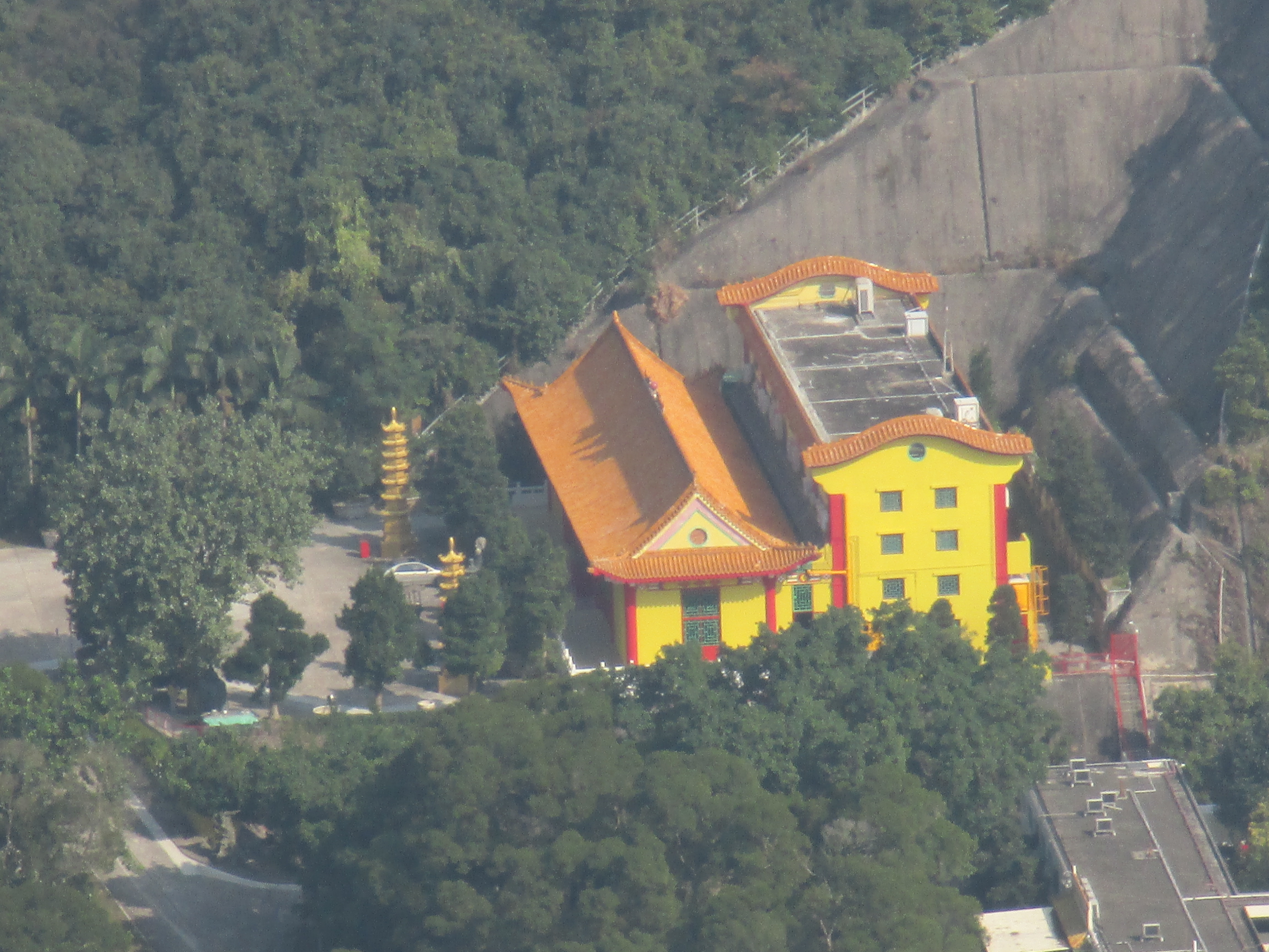 Cham Shan Monastery, Clearwater Bay, Sai Kung District, Hong Kong.